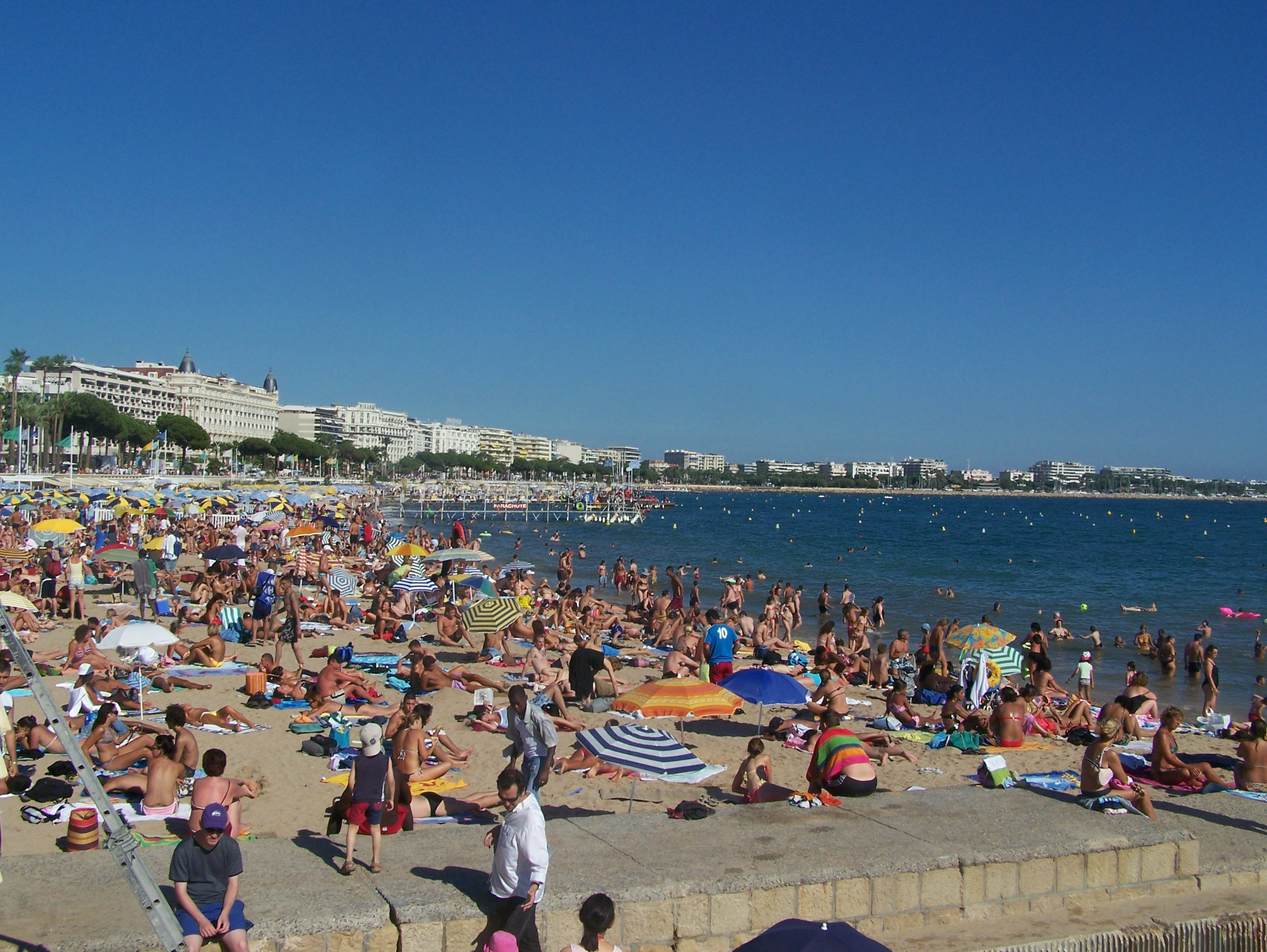 Sight of city of Cannes beach during summer, in Alpes-Maritimes, France.